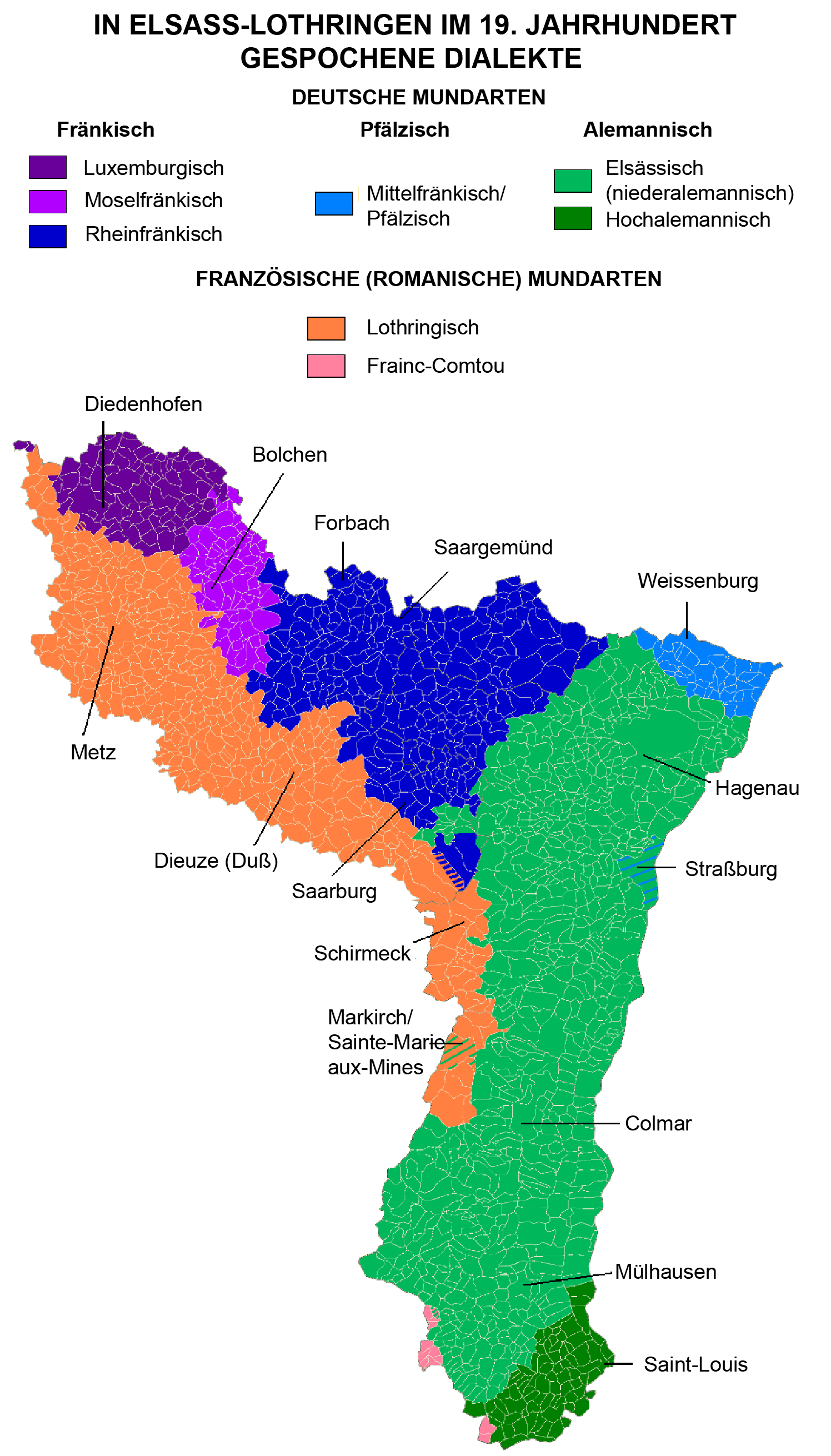 Dialects and languages in Alsace-Lorraine in the 19th. century.